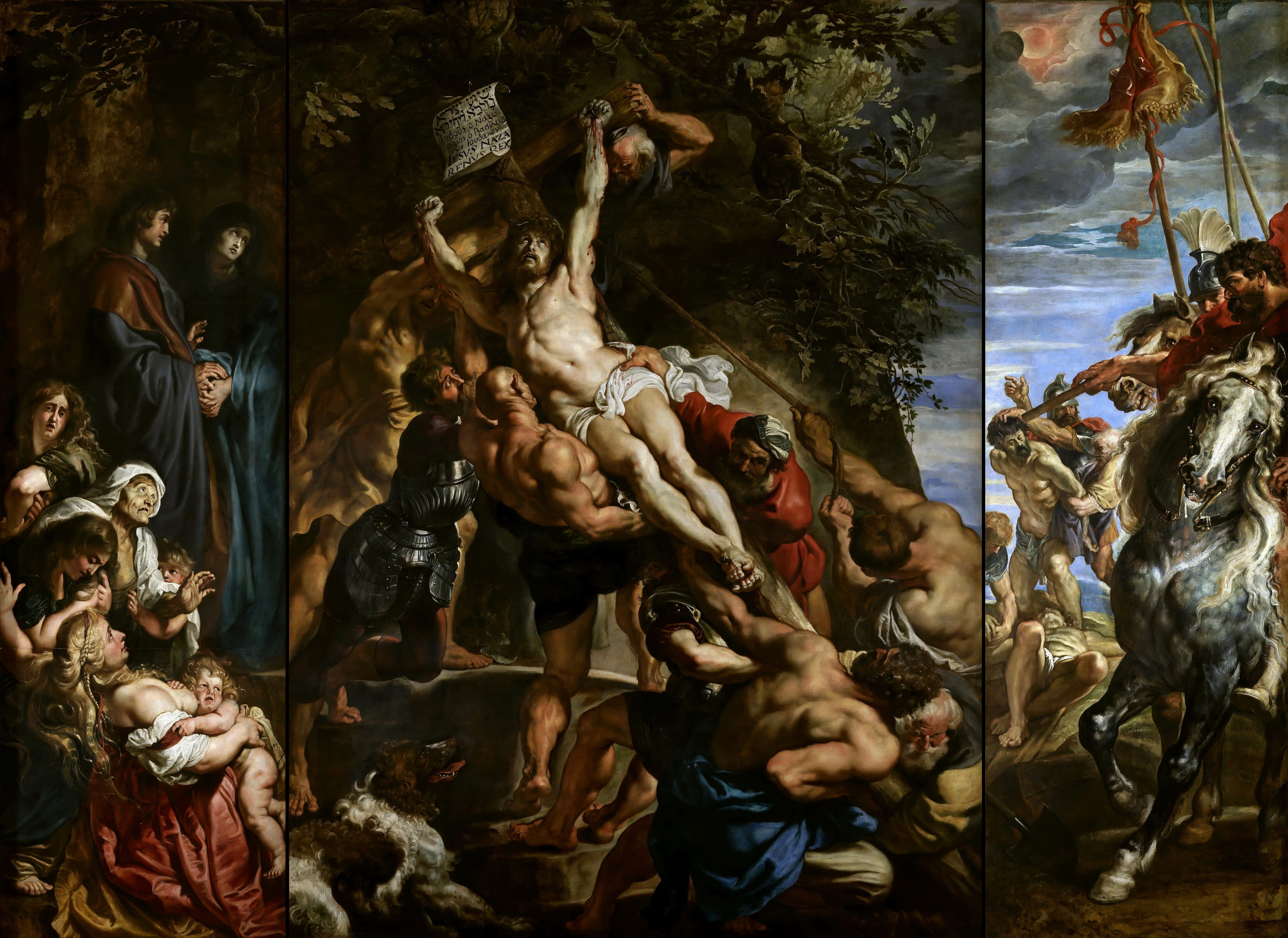 The Elevation of the Cross by Rubens